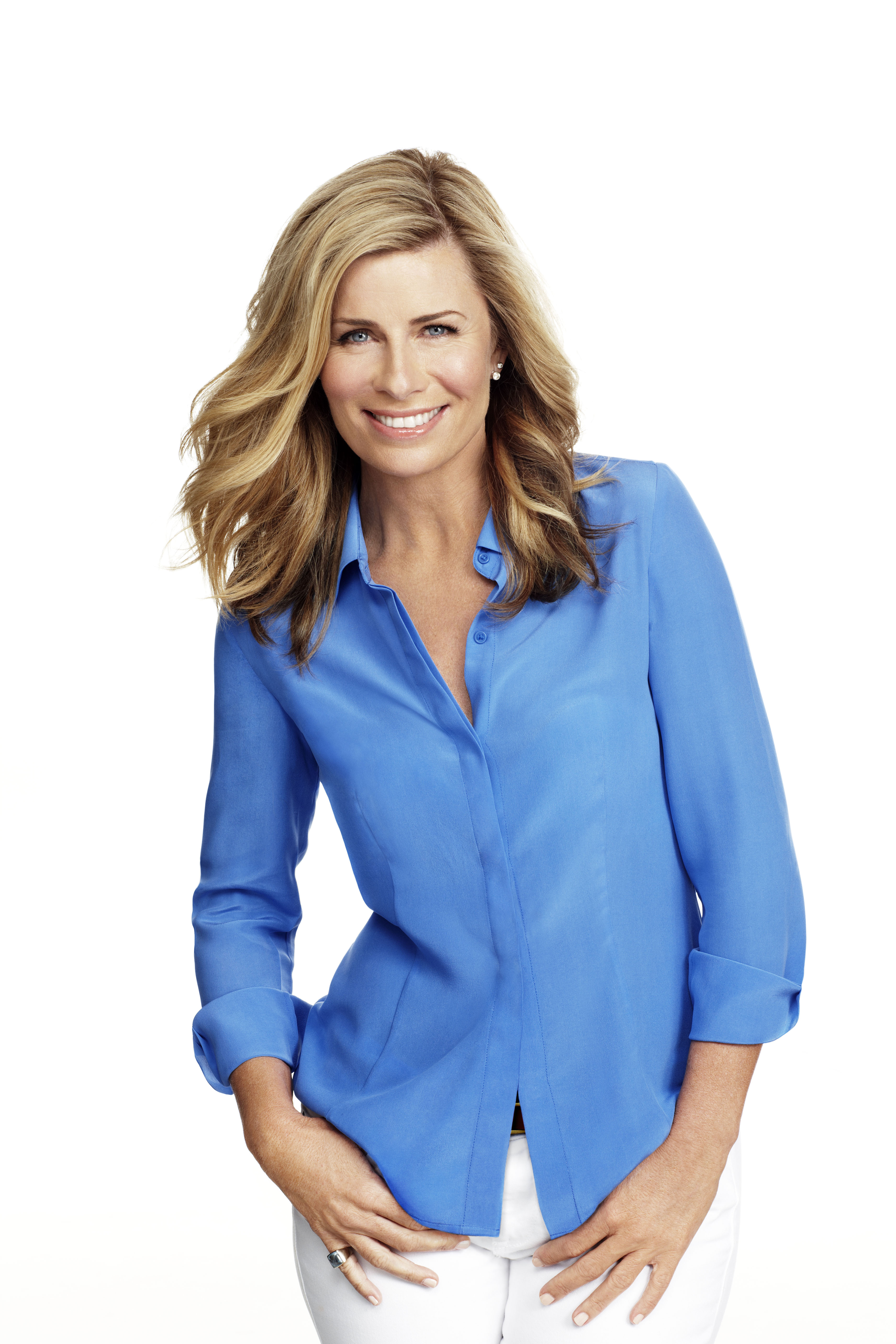 Deborah Hutton. Picture by Tarsha Hosking